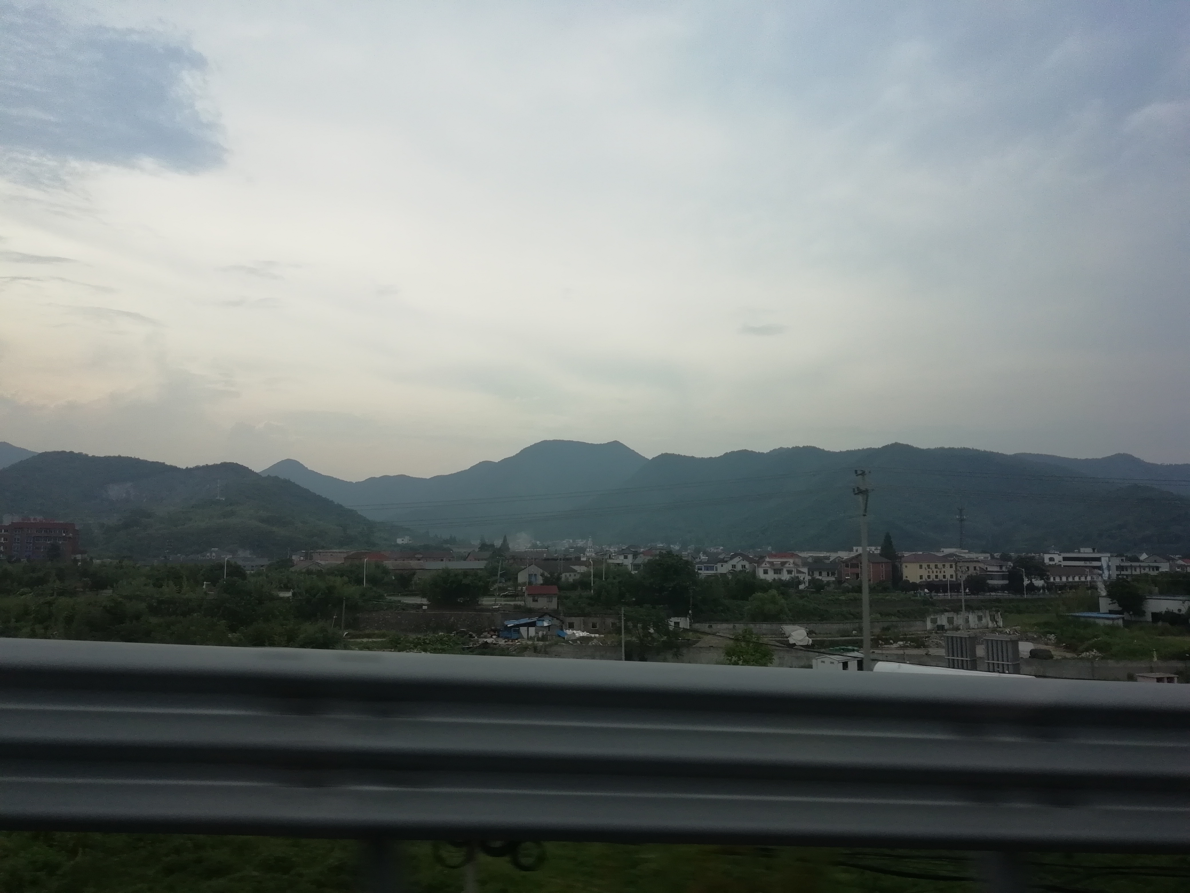 Here are mountains near Yucun, located in Anji County. Xi Jinping visited here in August 2005.